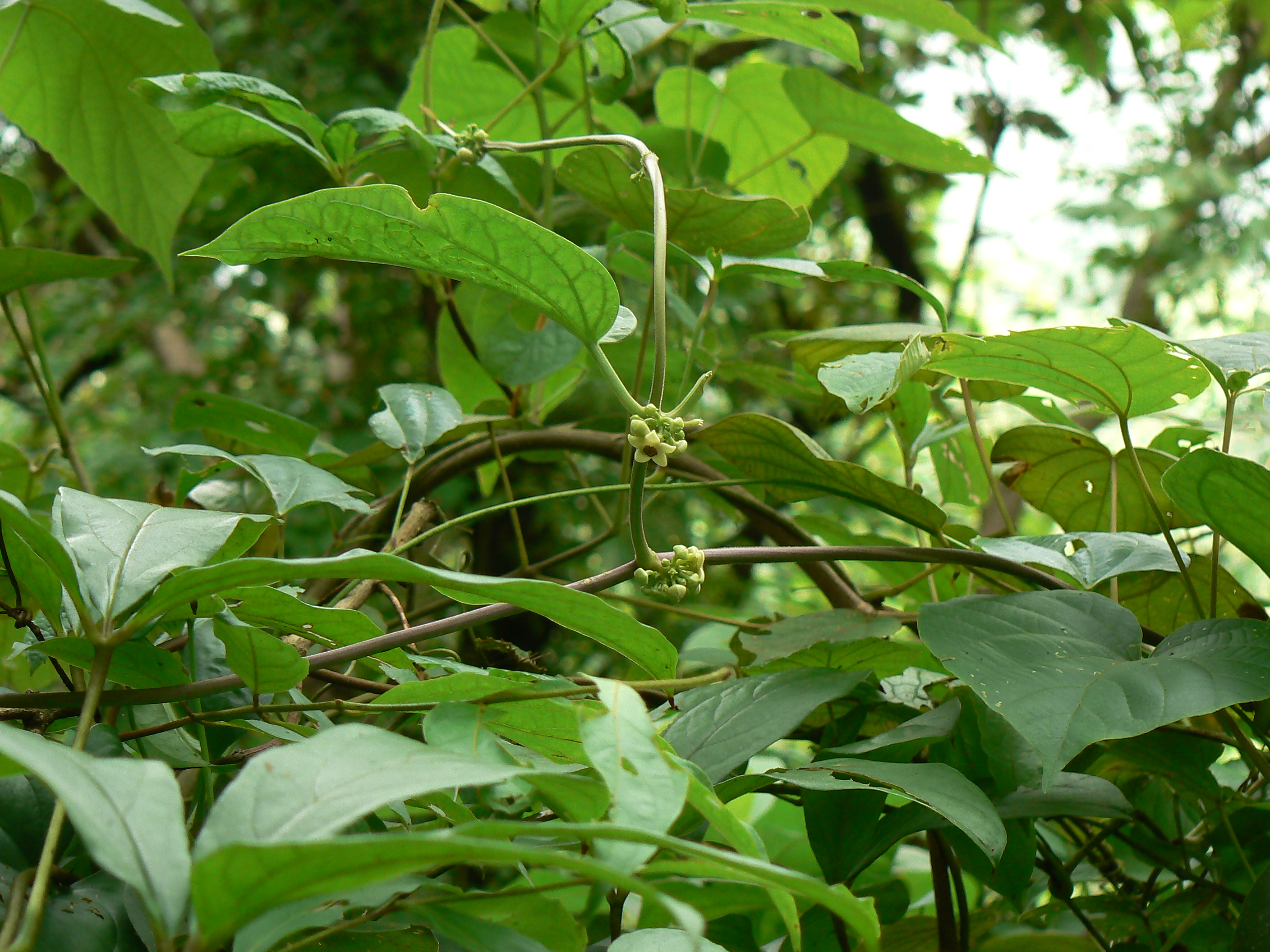 Asclepiadaceae (milkweed family) » Heterostemma dalzellii het-er-oh-STEM-uh -- from the Greek heteros (different) and stemma (garland, crown) ¿ del-ZEL-ee-eye ? -- named for N. A. Dalzell, collaborator with Gibson, of Bombay Flora commonly known as: Dalzell's heterostemma ¿ Endemic to ?: Western Ghats (of India) Reference: Further Flowers of Sahyadri by Shrikant Ingalhalikar